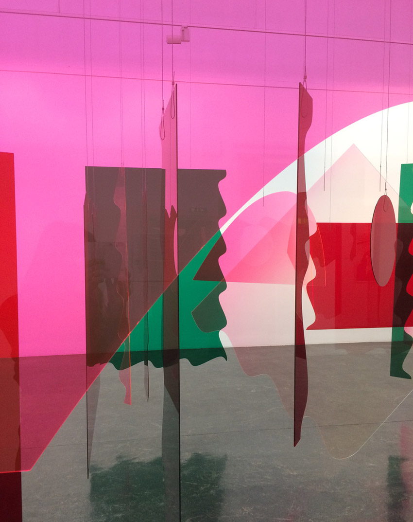 INTERVJU 2016 - Siri Aurdal. Fra utstillingen Aurdal/Mugaas Kunstnernes Hus, Oslo. Tilhører Stavanger Kunstmuseum. Foto: Heidi Johansen